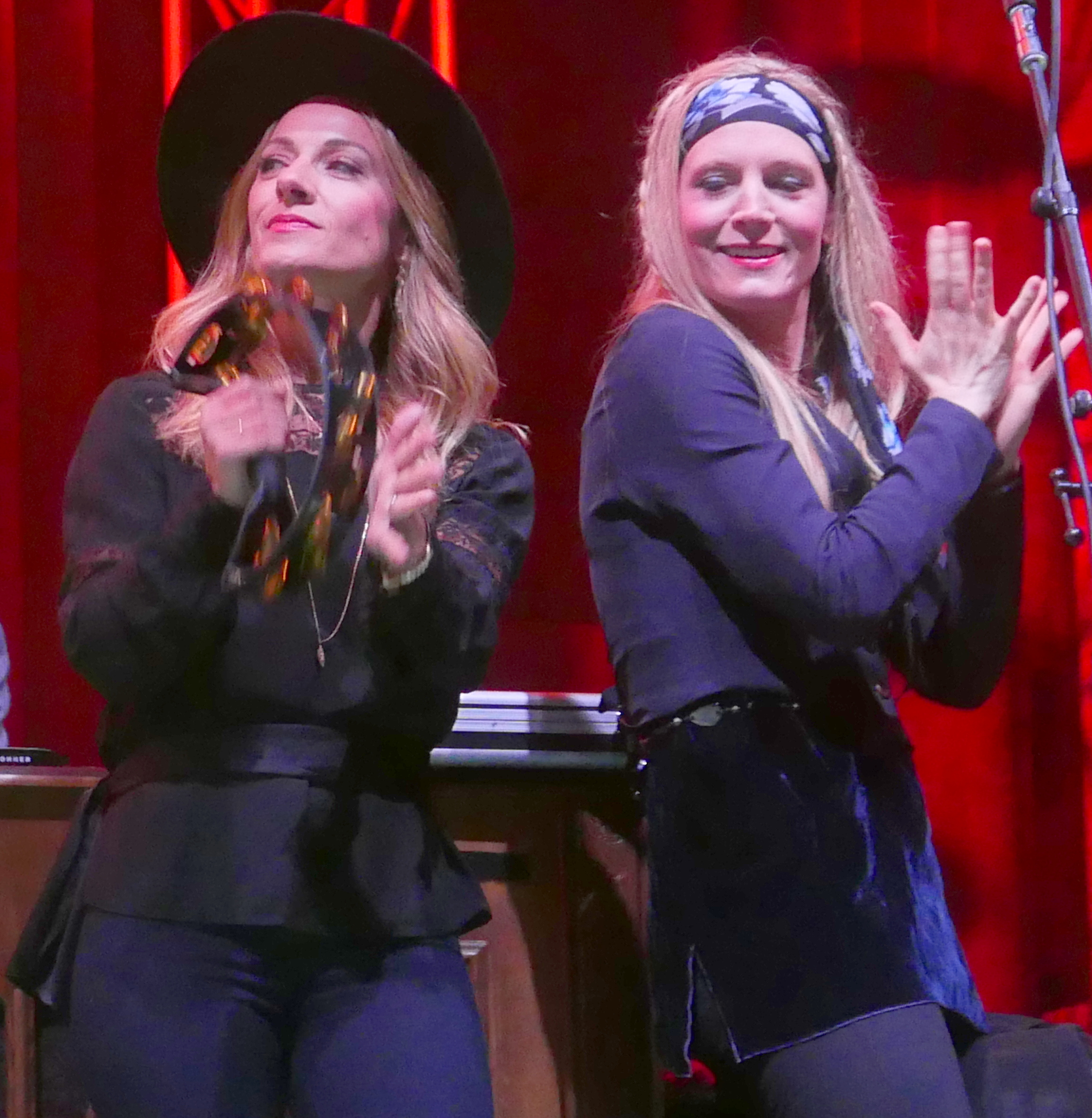 The Webb Sisters, performing with Tom Petty and the Heartbreakers in Berkeley, CA on August 28th, 2018.